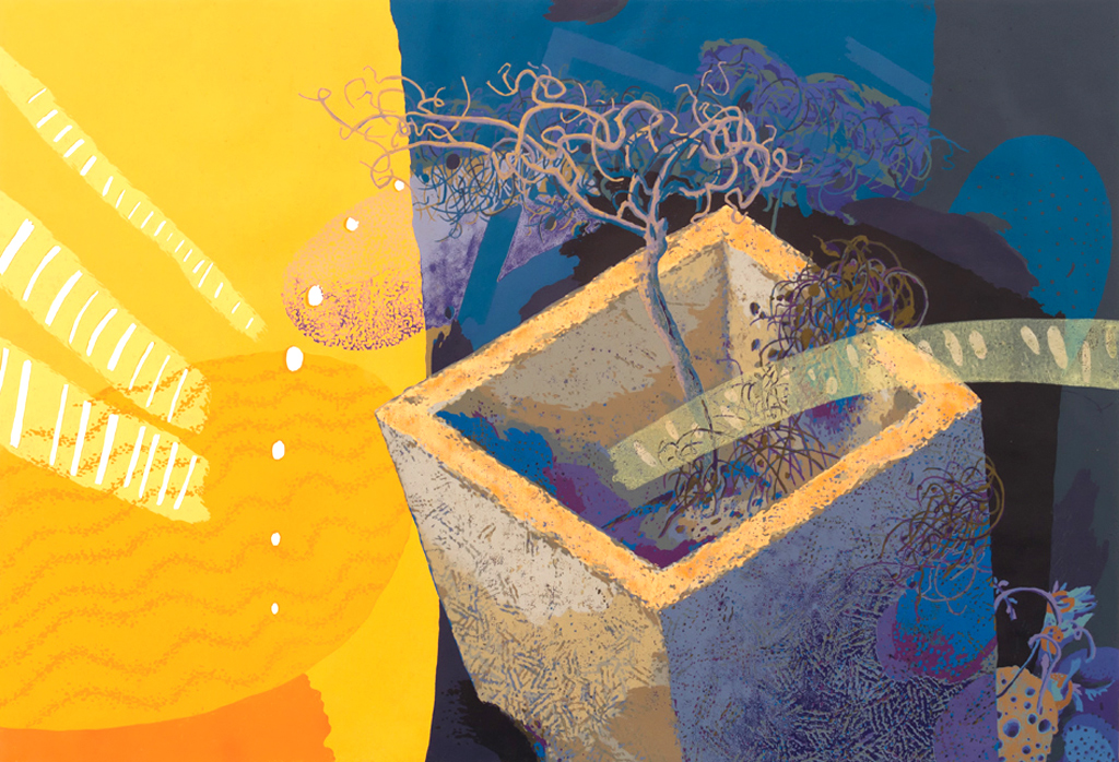 Ivo Křen, printmaker from the Czech Republic, Concealed garden, multicoloured linocut 75 x 120 cm, 1998